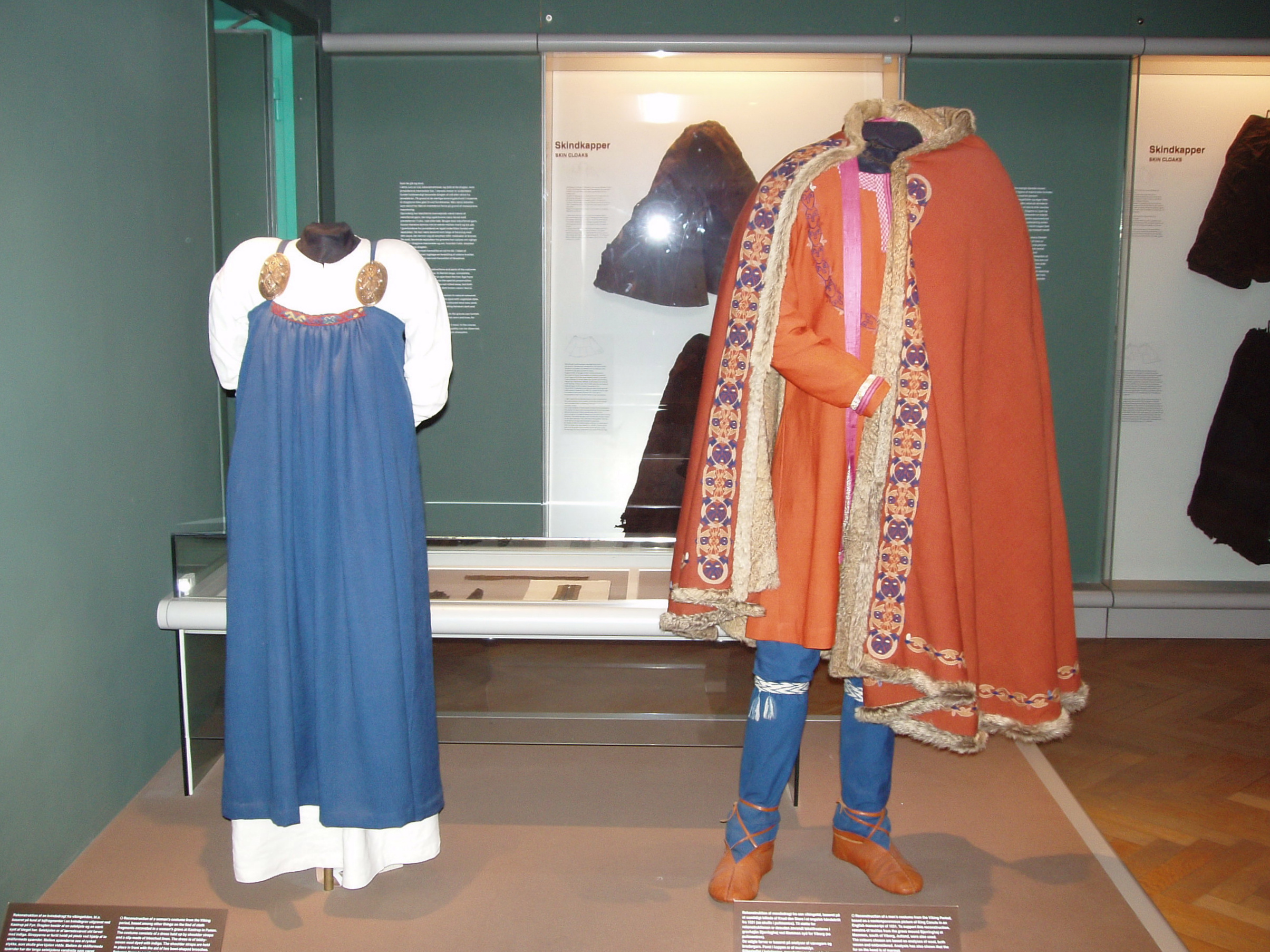 Old ensembles in Nationalmuseet in Copenhagen.